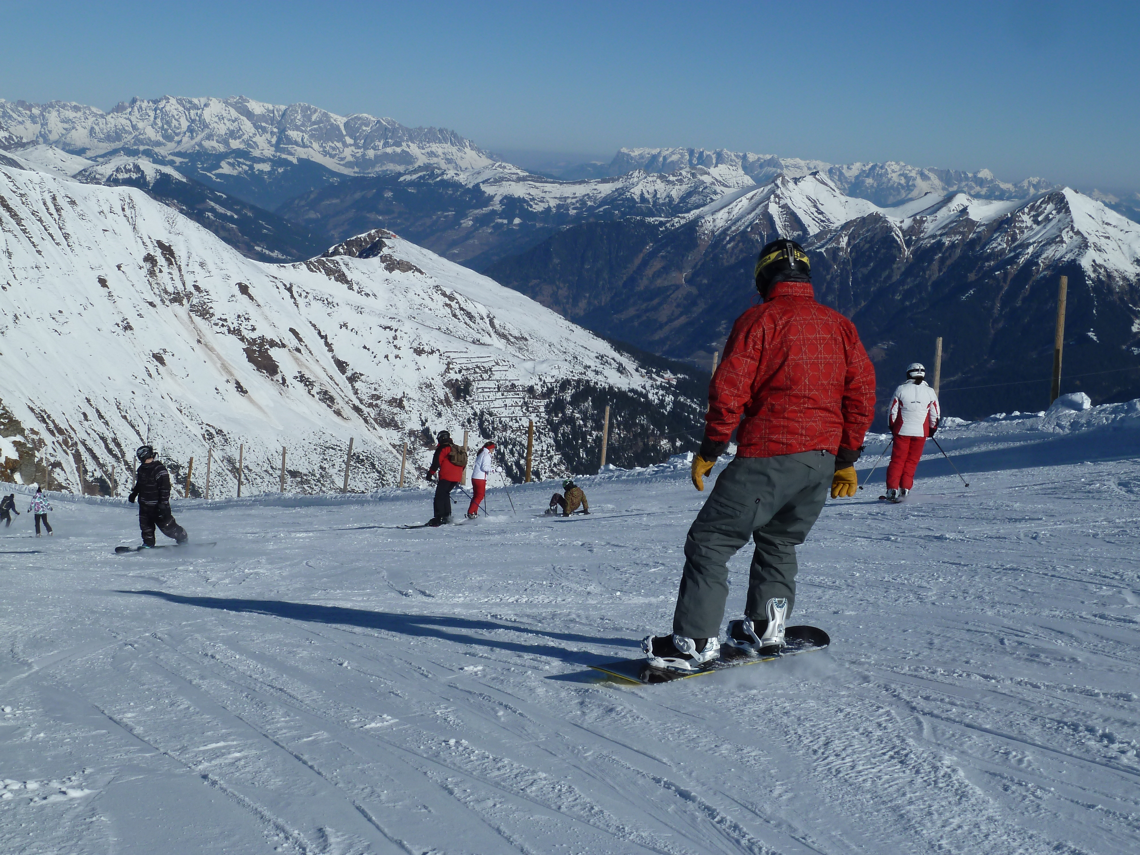 Skiers and snowboarders on the skiing slope at the Kreuzkogel in the skiing area of Sportgastein. Sportgastein is an alpine skiing area in the Gastein valley in Salzburg (state). From the Nassfeld valley which is the name of the southern end of the Gastein valley the gondola lift Goldbergbahn leads in two sections up to the Kreuzkogel (2686 m), the starting point of several downhill skiing slopes. On clear days there is a spectacular sight over the Gastein valley and the surrounding mountains.